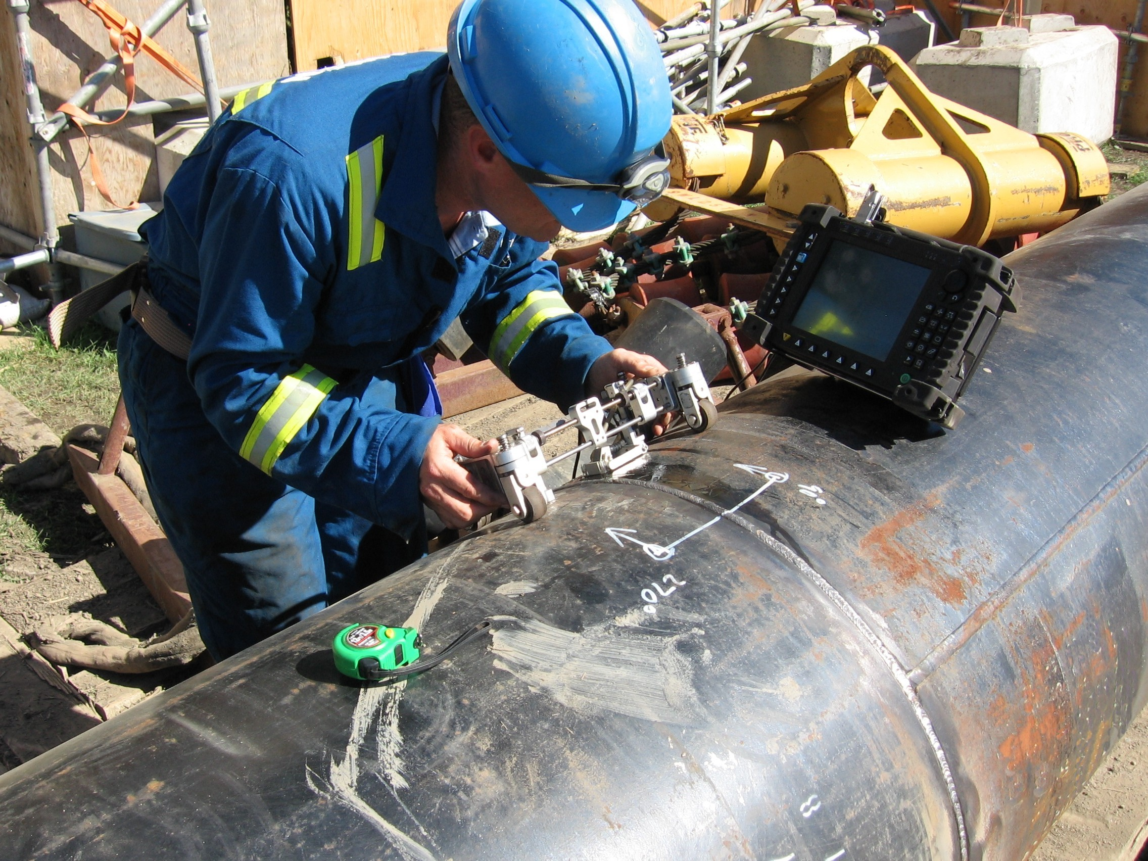 At a construction site, a technician tests a pipeline weld for defects using an ultrasonic phased array instrument. The scanner consists of a frame with magnetic wheels which holds the probe in contact with the pipe by a spring. The wet area is the ultrasonic couplant that allows the sound to pass into the pipe wall. Since this picture was taken (2008), developments to scanners include the ability to run two probes at one time, one probe on each side of the weld, and scanners with a chain or linkage that passes around the whole pipe, ensuring that the probes are guided in a straight line and do not fall off.